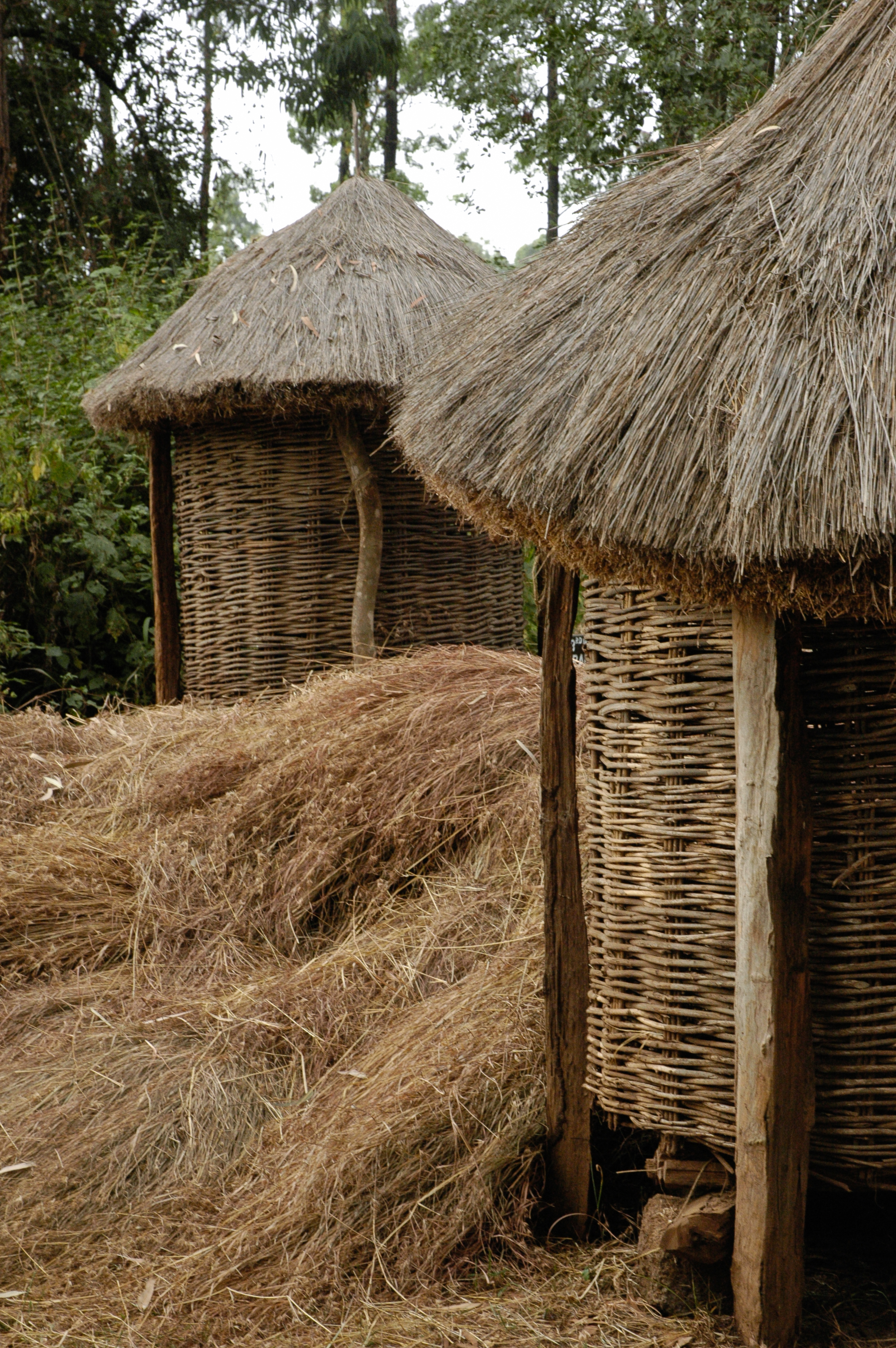 Kuria granaries at Bomas of Kenya near Nairobi